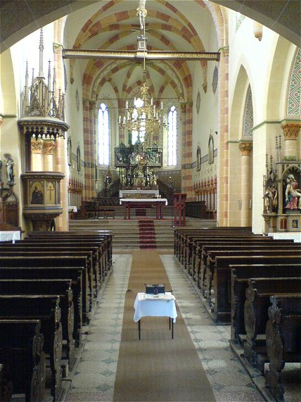 Interior of Saint Stephen church in Kouřim, Kolín District, Czech Republic